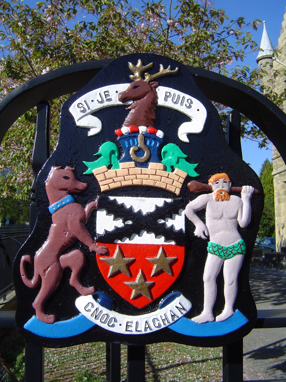 Helensburgh Coat of Arms